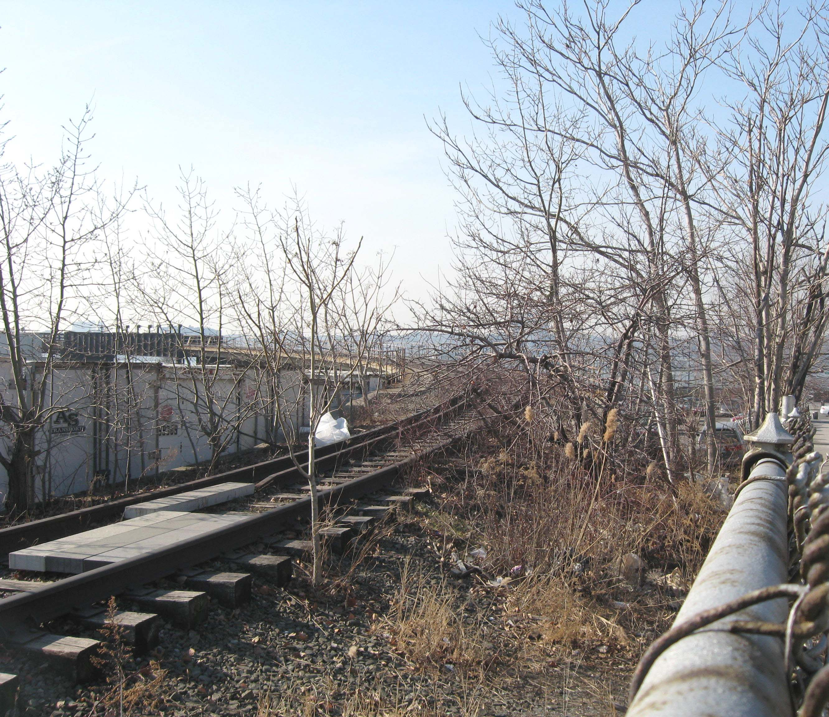 Looking west as the High Line climbs along the south side of 34th Street and curves south on a sunny early afternoon.